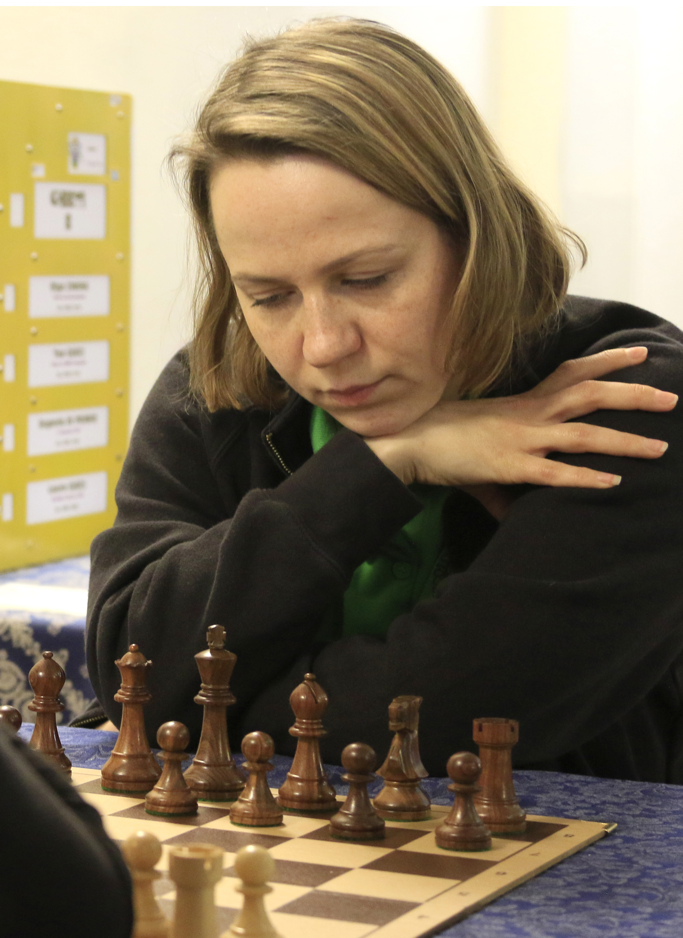 Olga Zimina, Italian chess Woman GrandMaster (WGM)